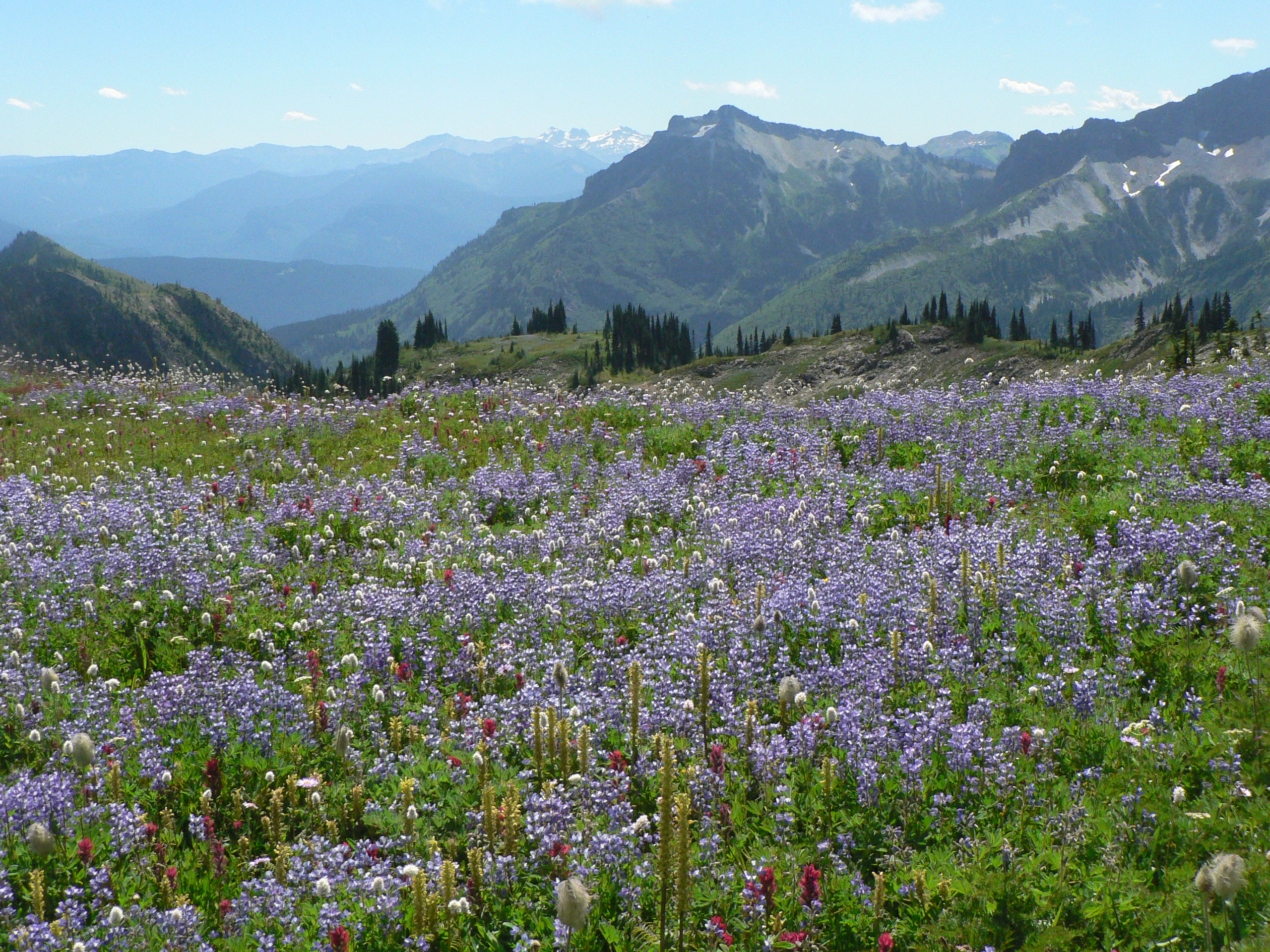 Wildflowers above Paradise; lupines, lousewort, paintbrush and bistort to name a few. During the summer, subalpine meadows around the mountain burst into color for the short summer. NPS Photo by Jasmine Horn.